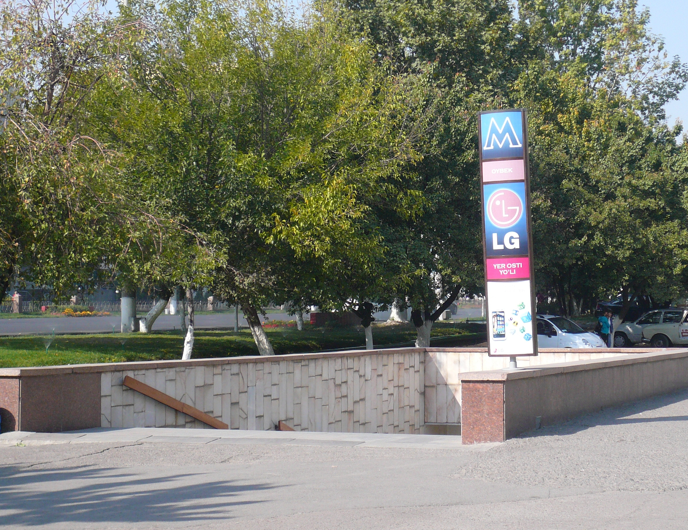 Station Oybek of Tashkent Metropolitan